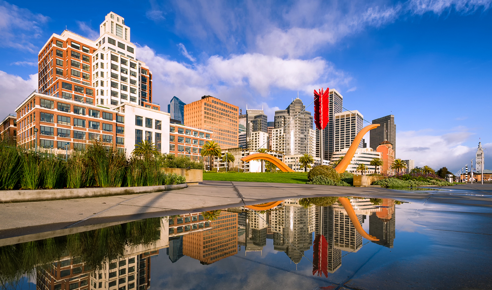 Bow and arrow San Francisco water reflection after the rain.